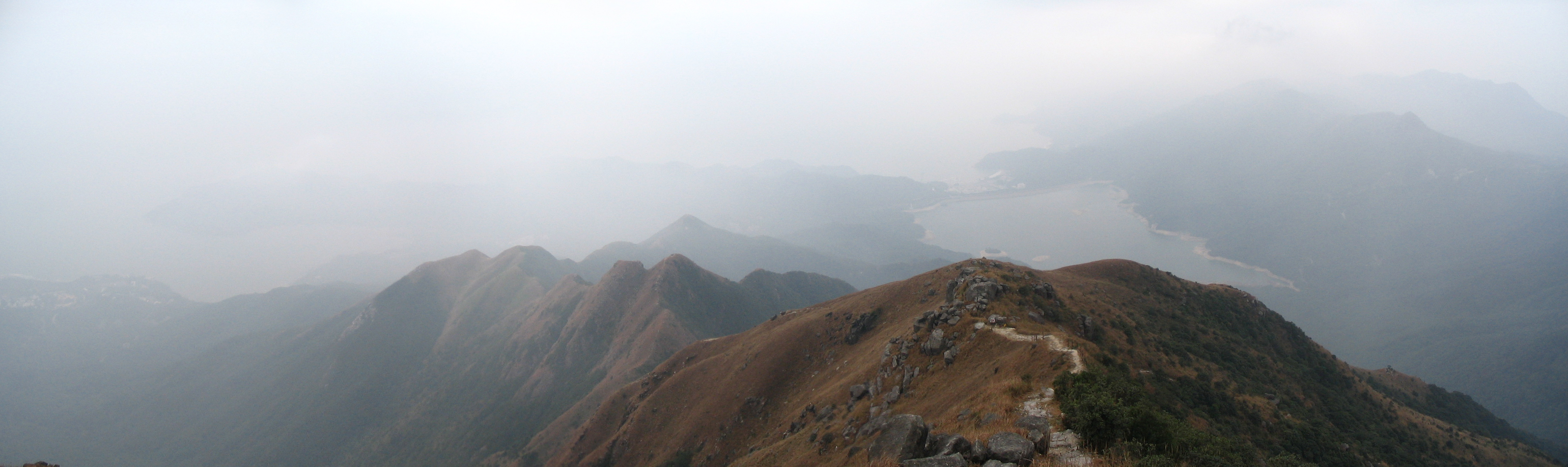 Panoramic photo of Kau Nga Ling, combined from 2114377091, 2114377653, 2115157282 and 2114378953